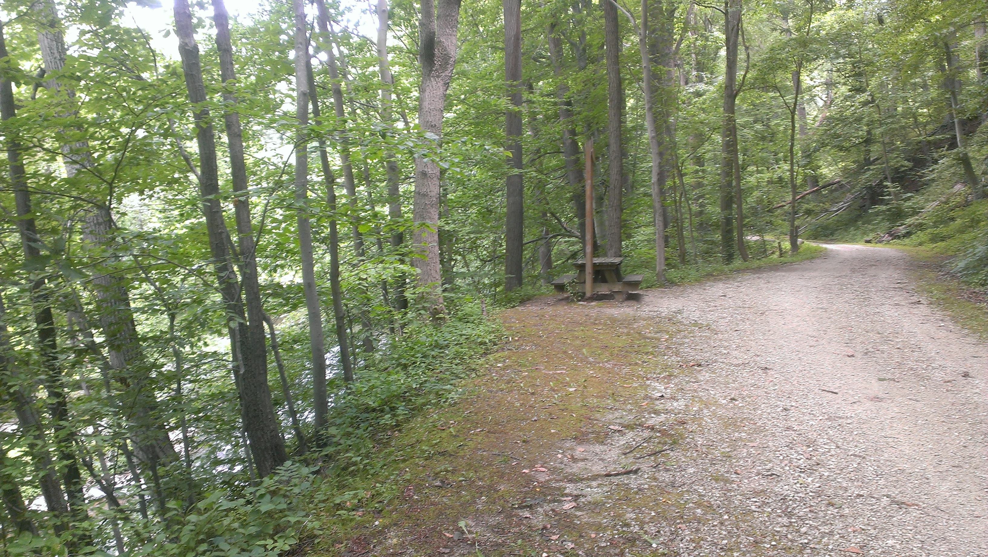 Part of the gravel section of the Gwynns Falls Trail, showing the trail surface, a picnic table, the foliage surrounding the trail, and the namesake Gwynns Falls flowing below.